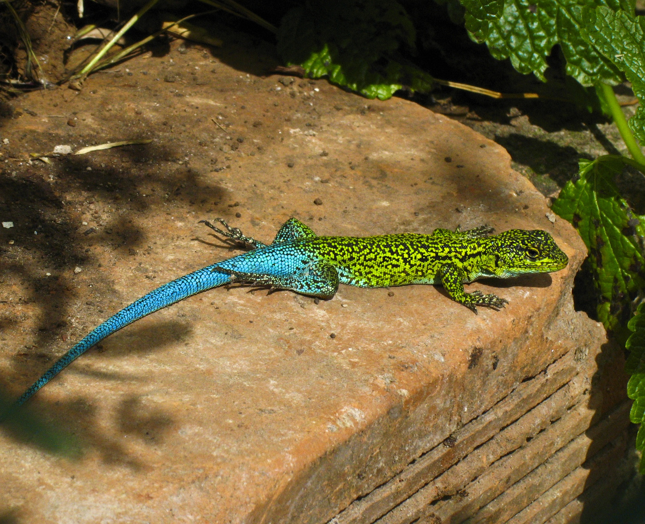 Male specimen of Liolaemus tenuis basking in the sun, on a red brick.